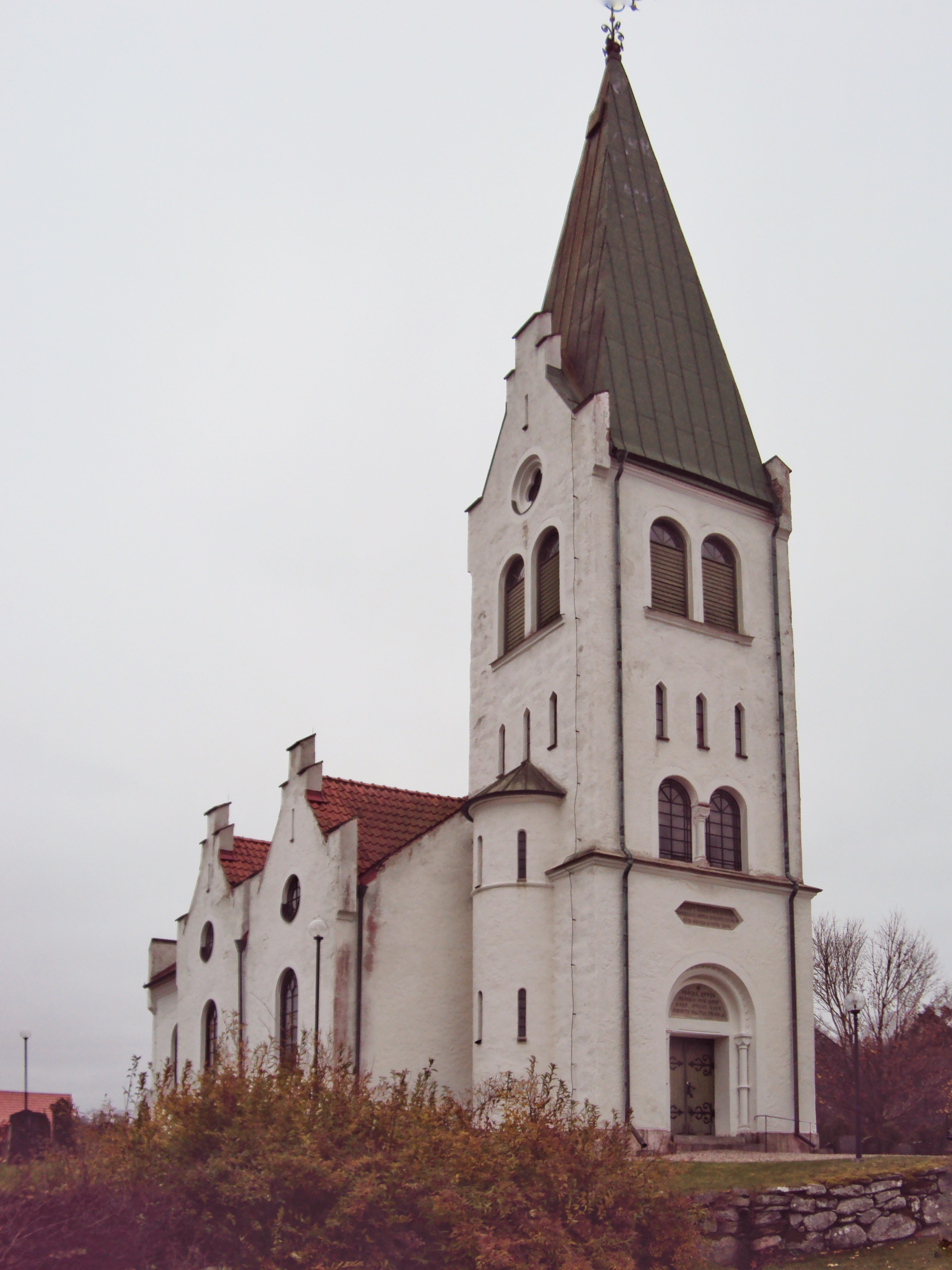 Church of Matteröd in Diocese of Lund Matteröds kyrka i Lunds stift